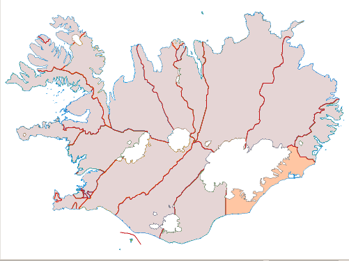 A map of the county Austur-Skaftafellssýsla in Iceland. Based on a map from the National Land Survey of Iceland.